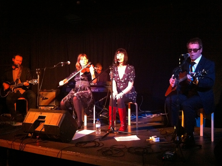 Live in Sydney, December 2011